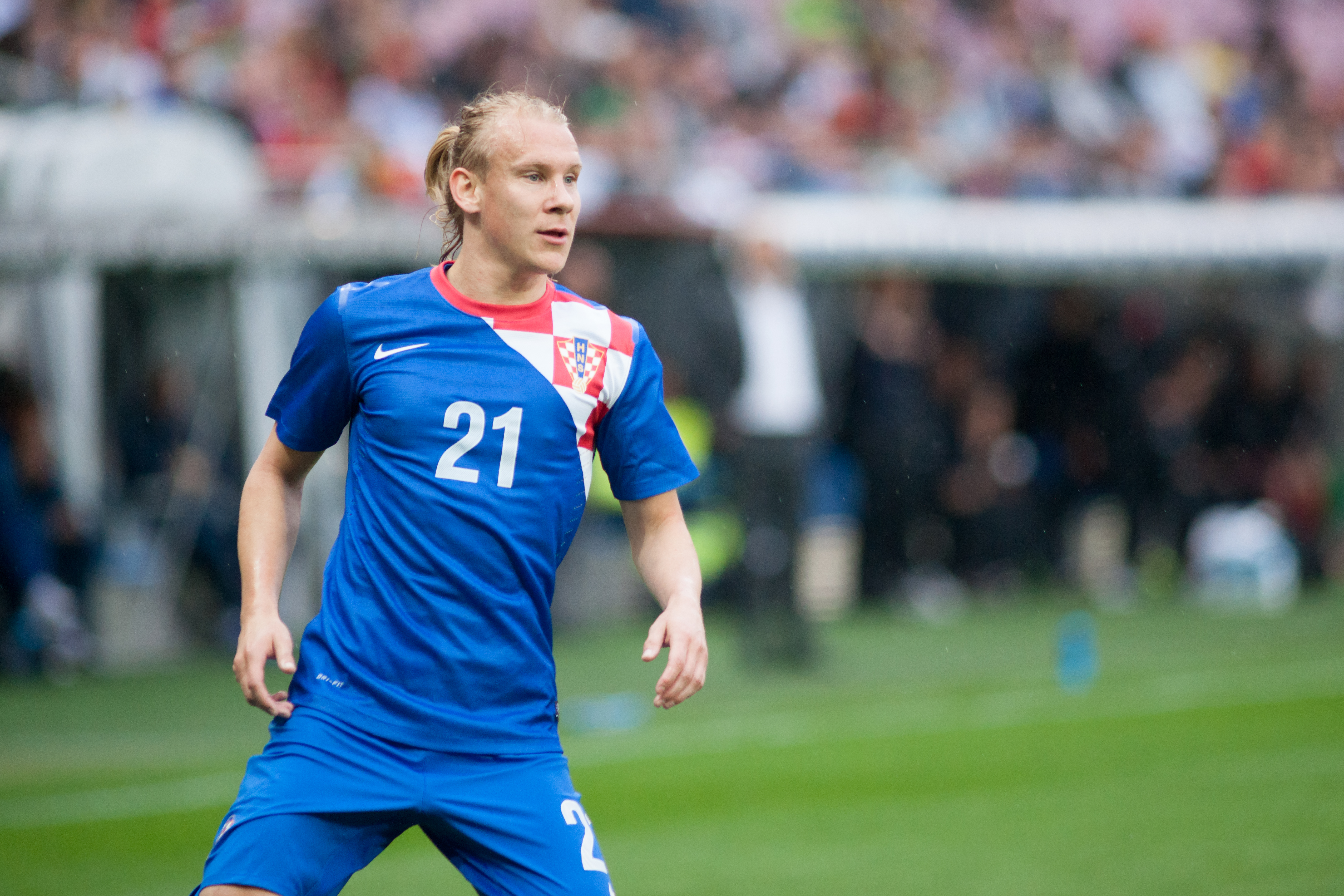 Croatia vs. Portugal, 10th June 2013